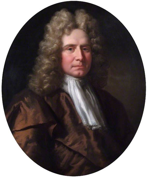 A 72 x 60 cm oil-on-canvas portrait painting of Humphry Morice by Godfrey Kneller held at the Bank of England Museum